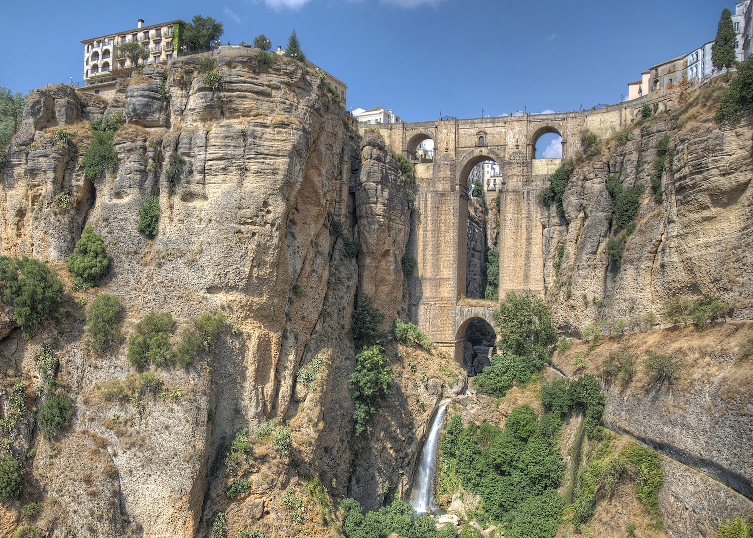 500px provided description: Bridge of Ronda. [#river ,#bridge ,#rocks ,#rio ,#rocas ,#puente ,#ronda]